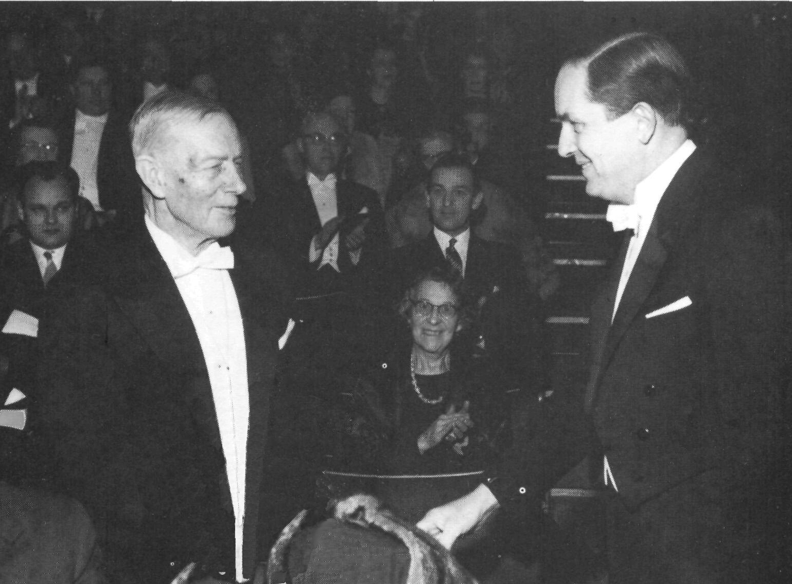 Professor Emil Zilliacus (to the left) receives the medal "Forskning och vitterhet" from Olav Ahlbäck of The Society of Swedish Literature in Finland in 1961.